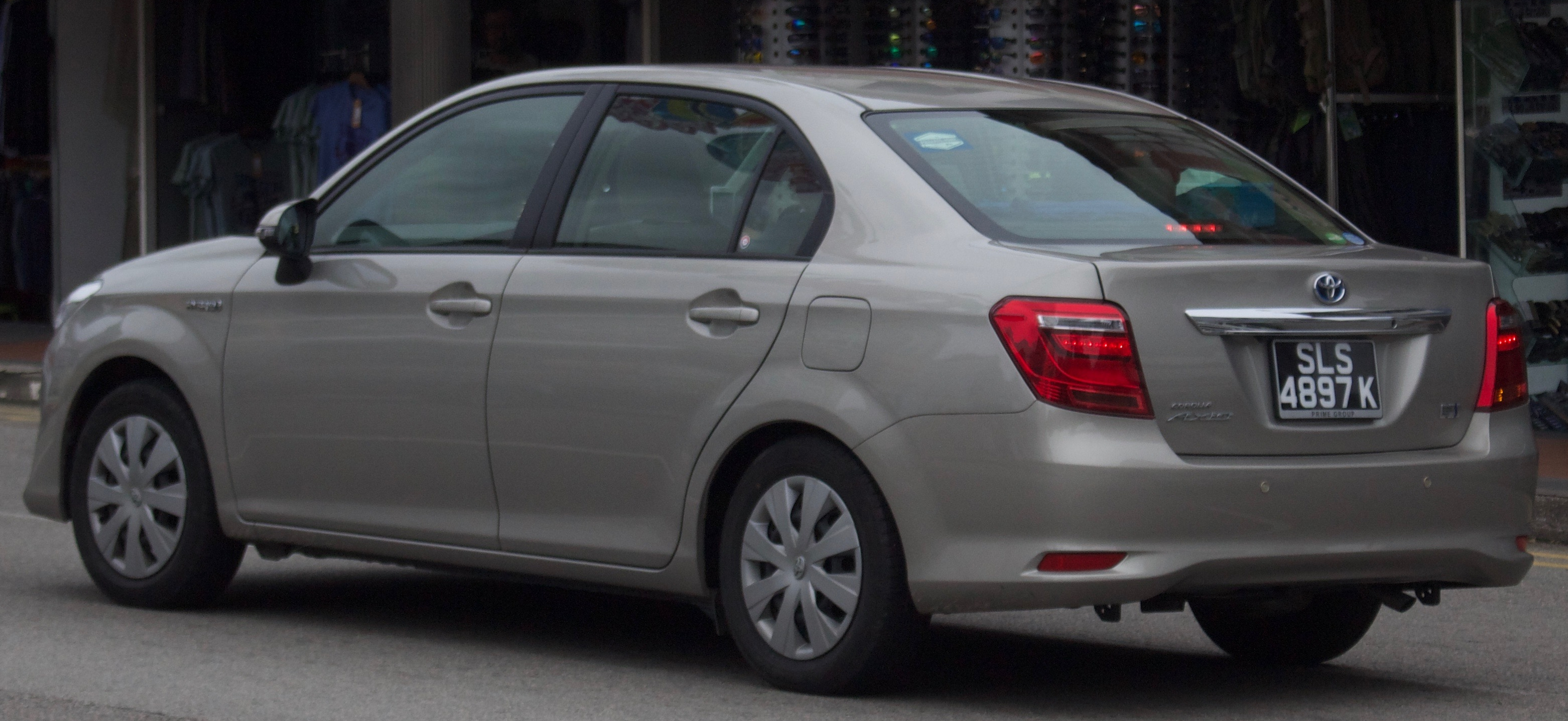 2016 Toyota Corolla Axio (NKE165) Hybrid sedan. Photographed in Singapore.